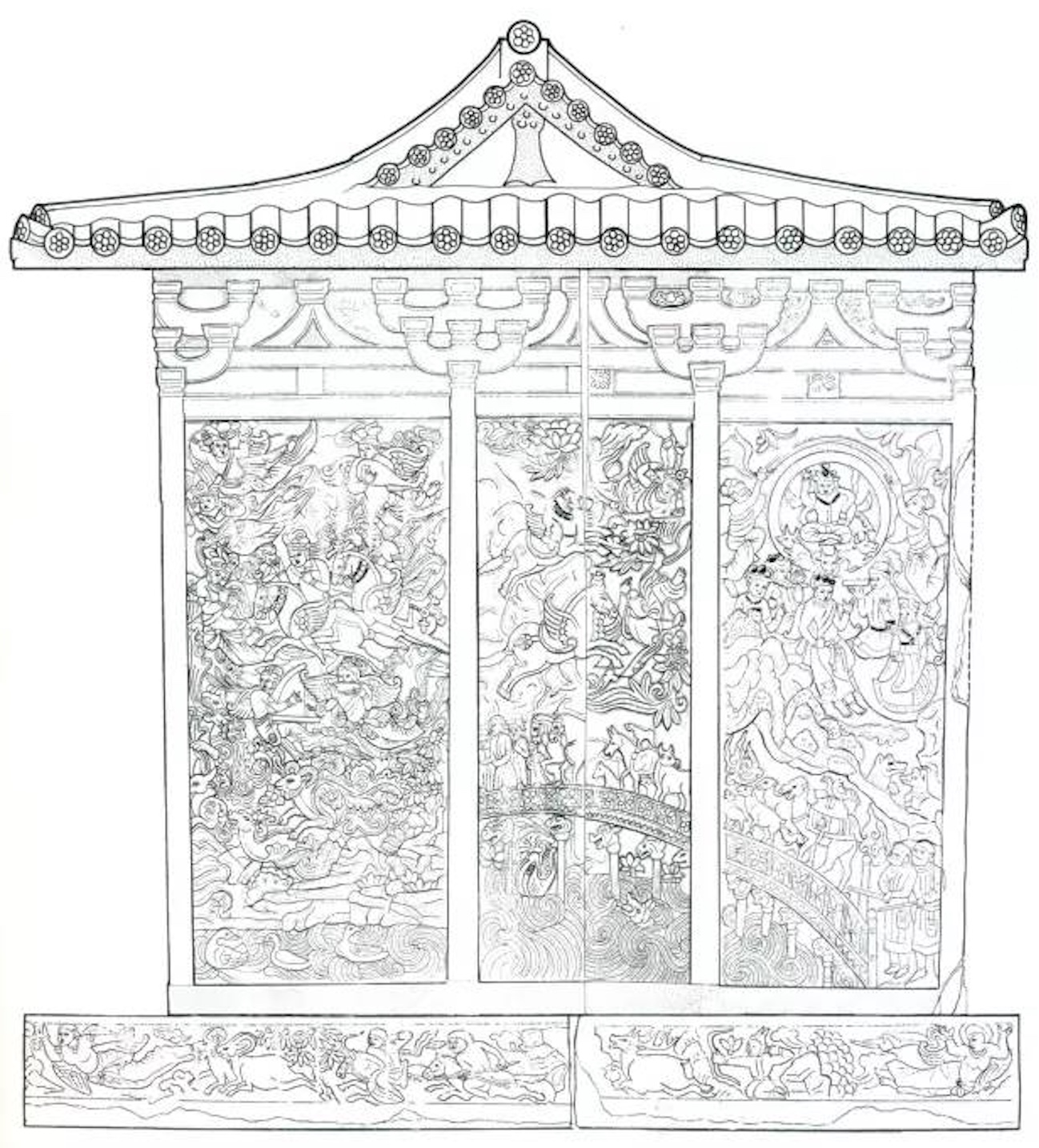 The stone sarcophagus discovered in the sa-pao Wirkak’s tomb.